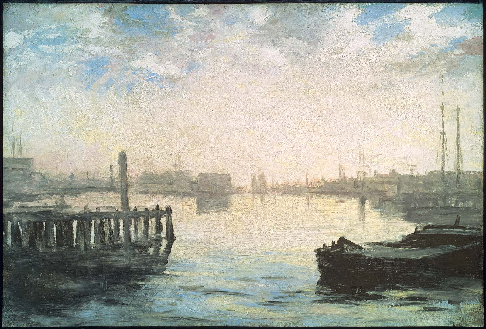 Hunt's work has prefigured the interest in impressionism in Boston art circles